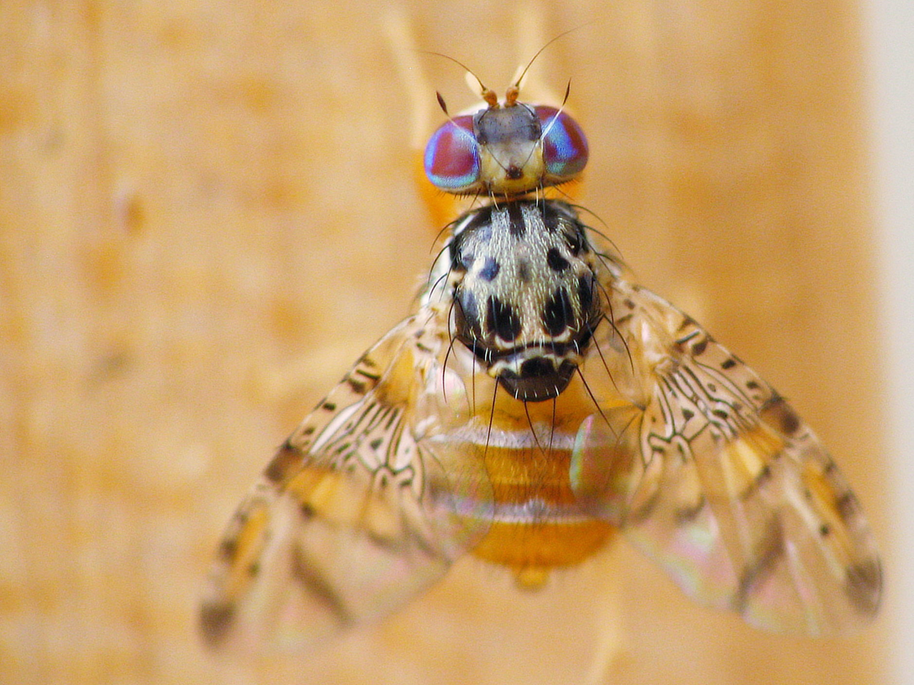 Medfly adult (Ceratitis capitata)